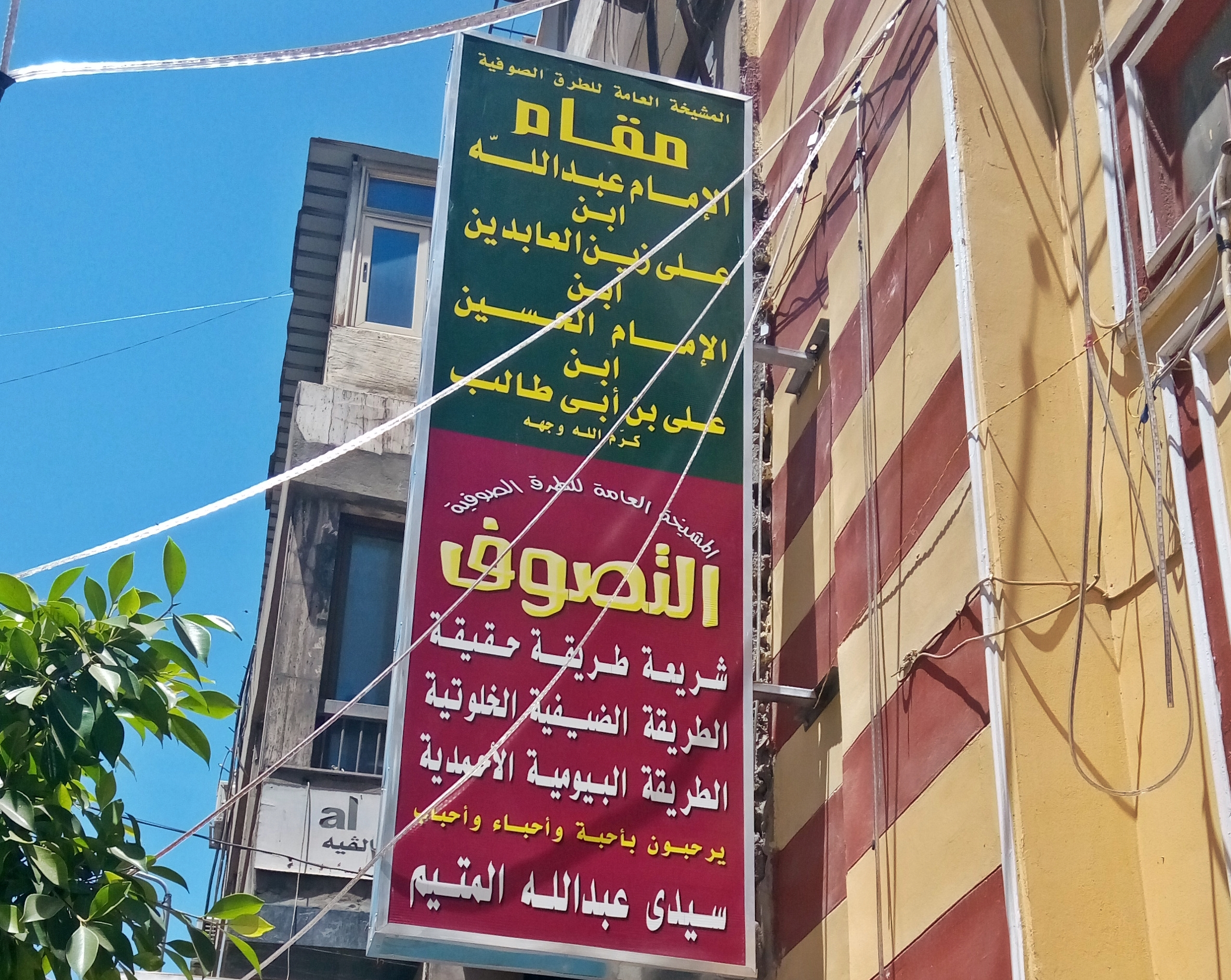 Mausoleum of Abdullah ibn Ali Zayn al-Abidin in Alexandria, Egypt